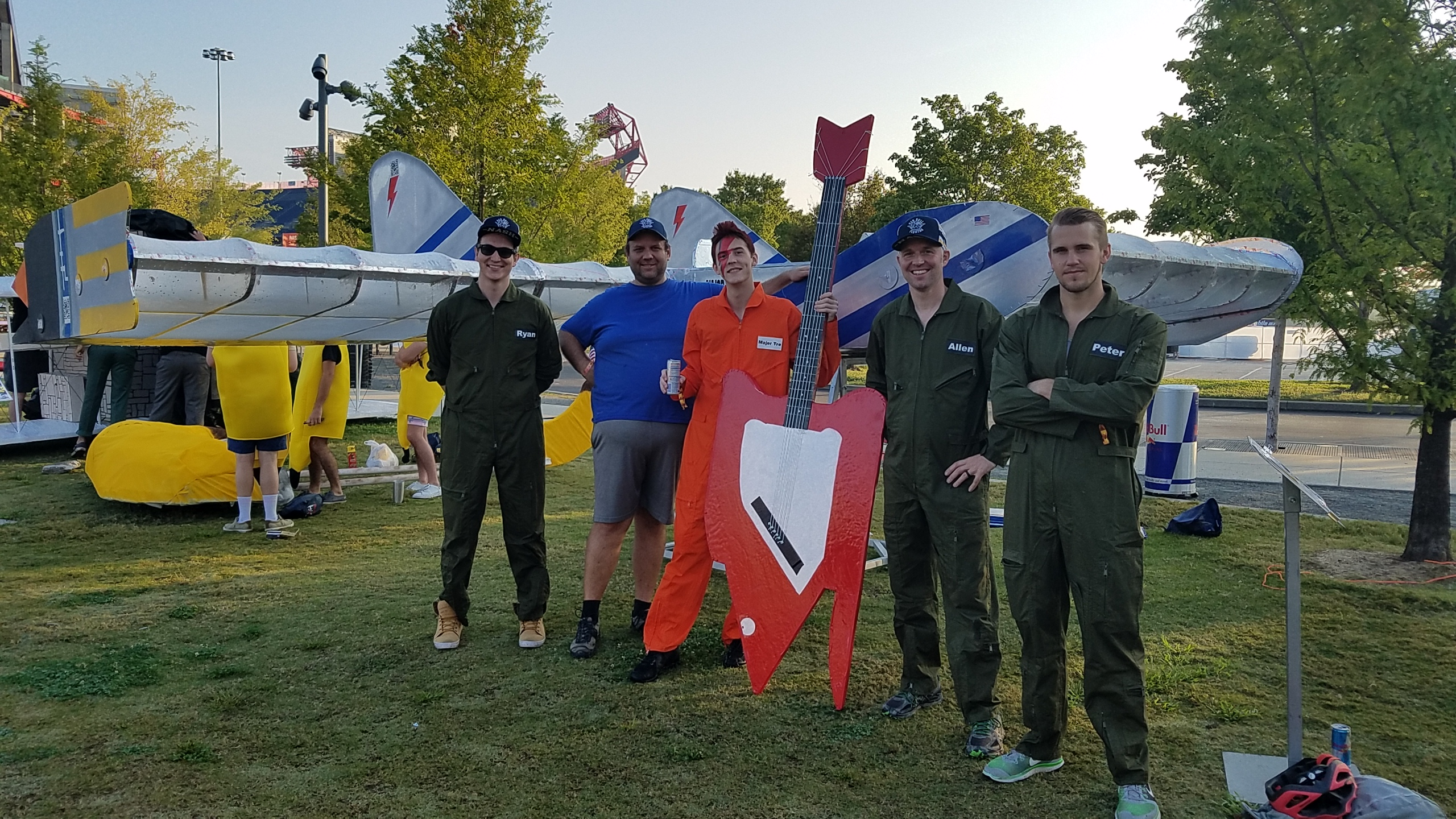 The Nashville 2017 1st Place Winners at 81'